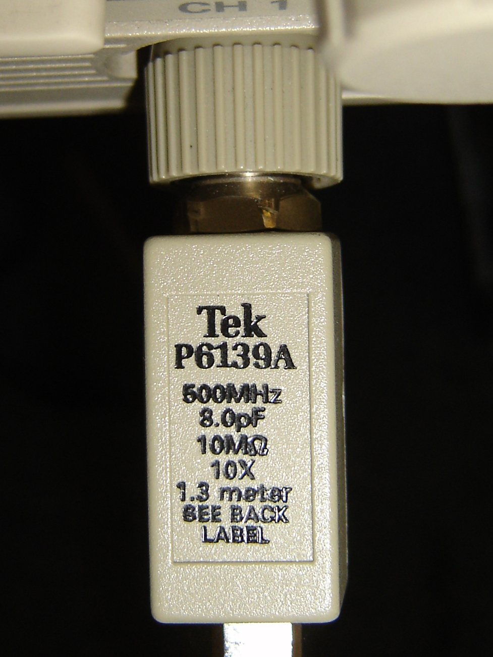 Label_of_a_Tektronix_Test_Probe